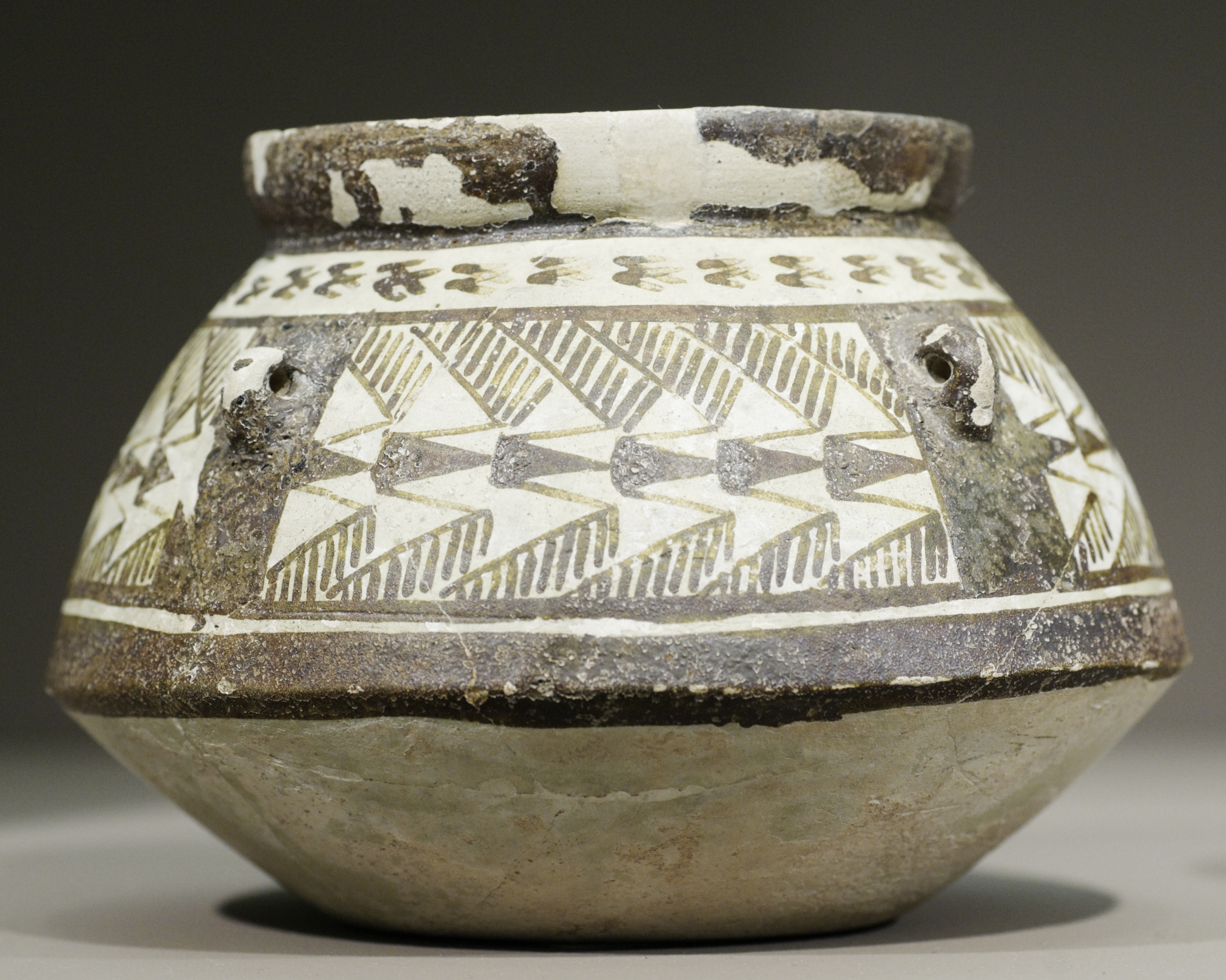 Carinated jar. Buff ware, late 5th millennium BC (Susa I). From the necropolis of the Acropolis mound, Susa, Iran.